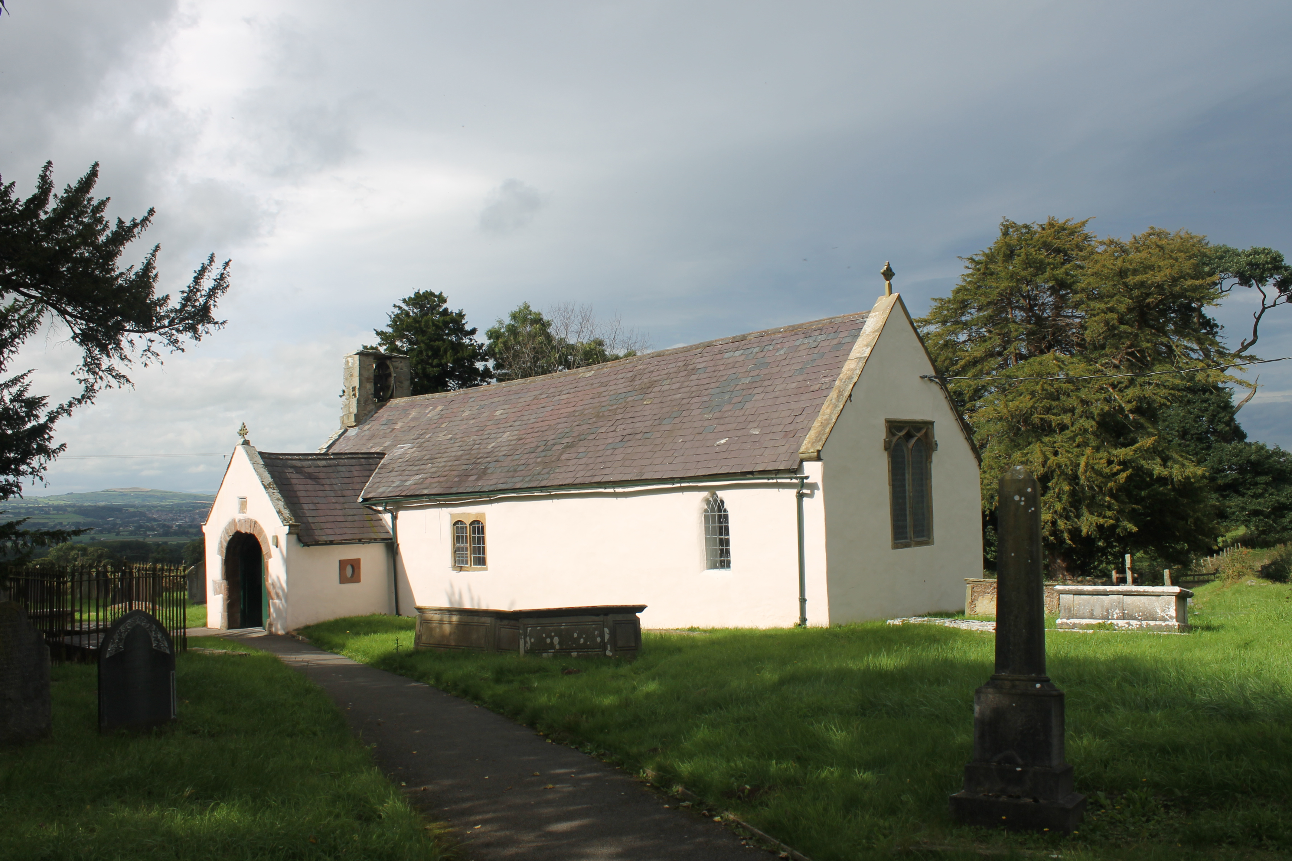 Church of St Cwyfan, Llangwyfan near Llandyrnog, Denbighshire, Wales. Grade: II* Date Listed: 19 July 1966 Cadw Building ID: 749